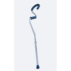 Picture of Strongarm Mobility Forearm Crutch/Cane